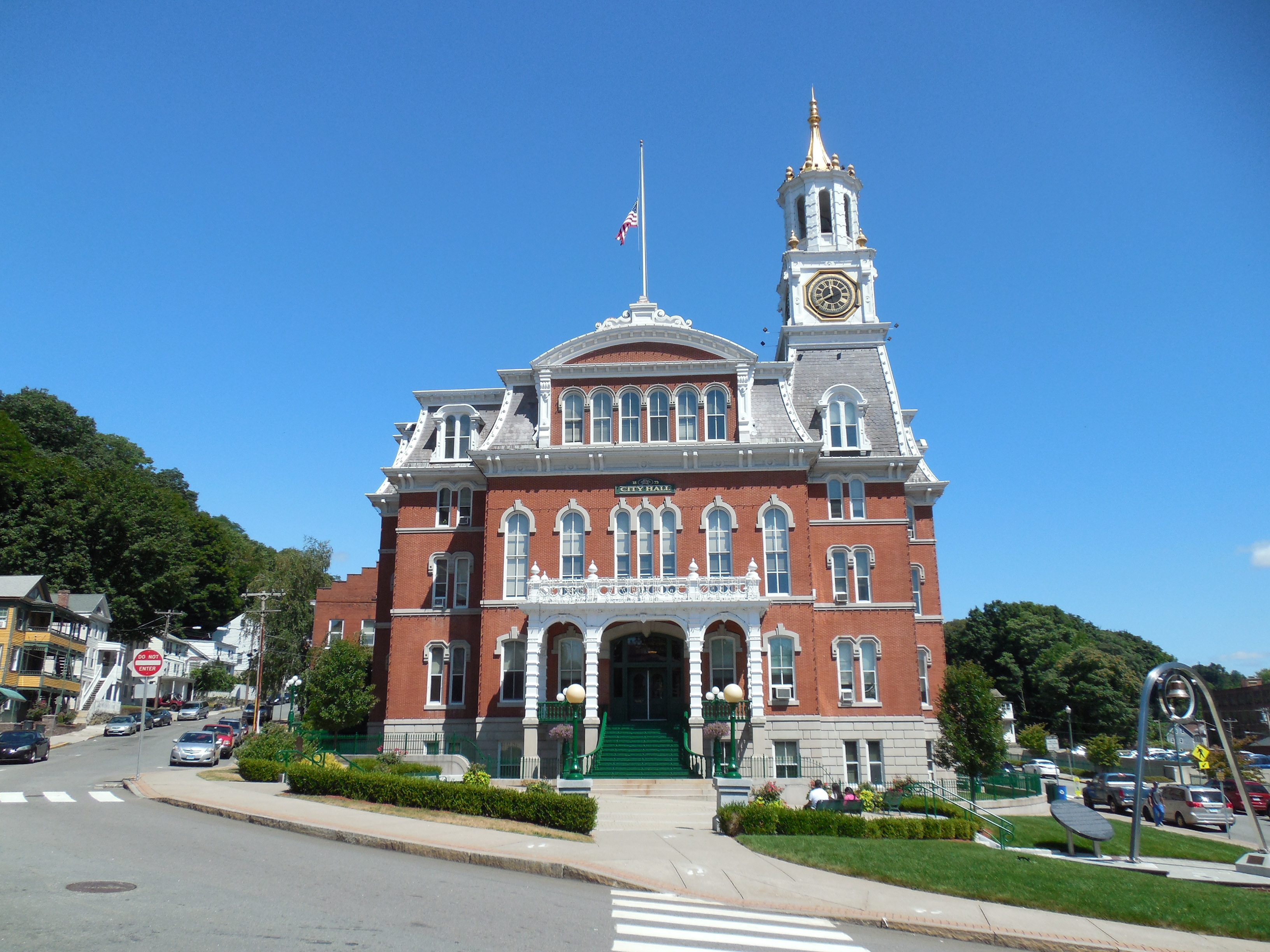 City Hall, Norwich Connecticut